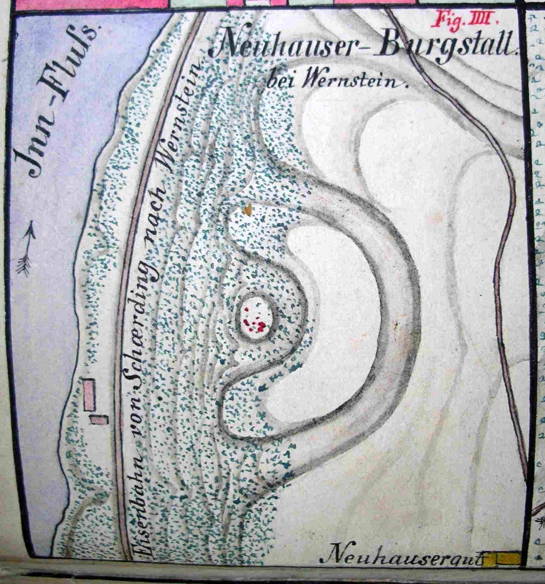 Map (Tab. A, Fig. 4) of Neuhauser Burgstall, Wernstein municipality, Upper Austria (created around 1880)